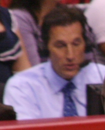 Los Angeles Clippers radio color commentator and former player Michael Smith calls the Jan. 17, 2011 Indiana Pacers/Clipper game.